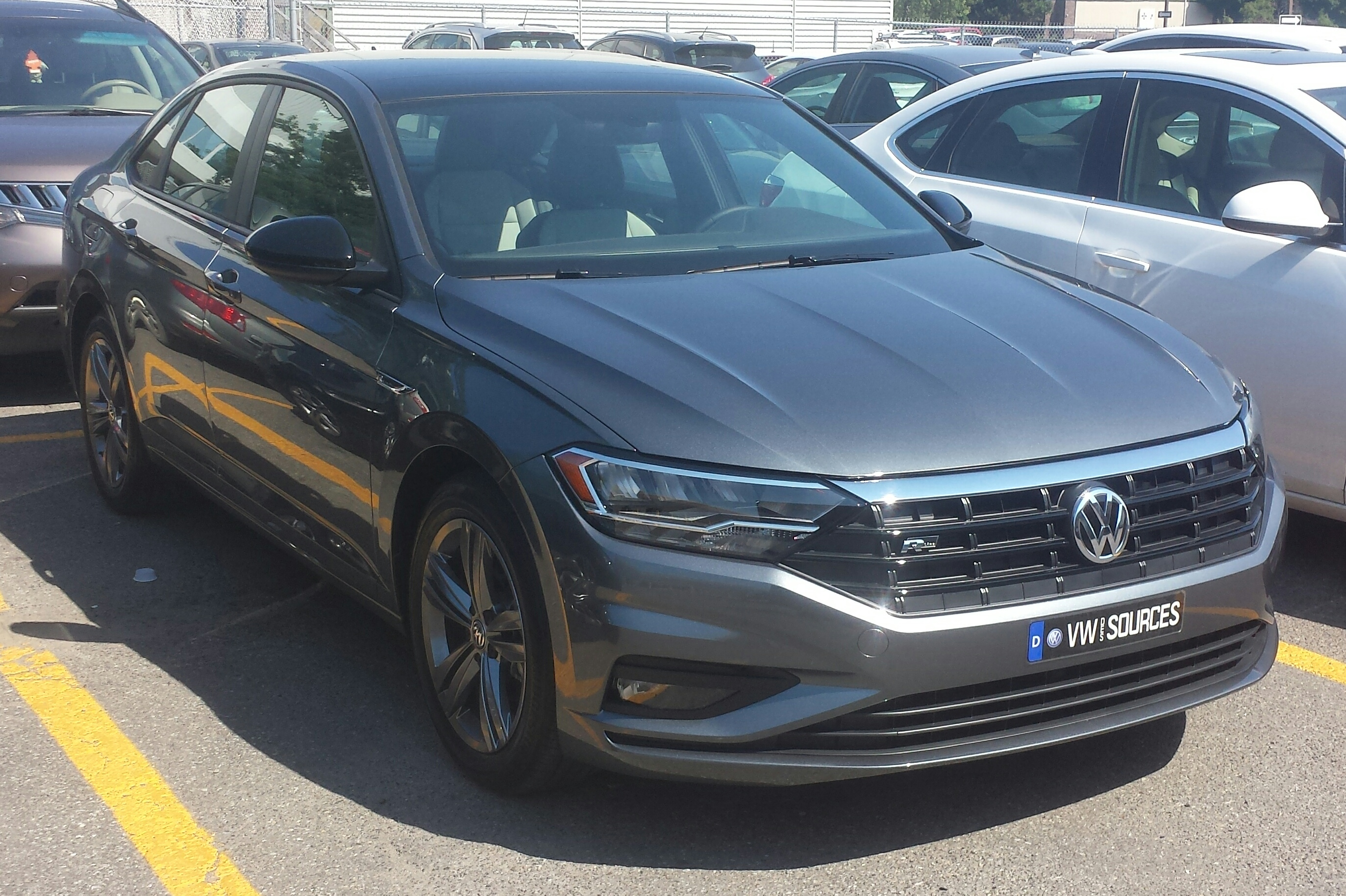 2019 Vollswagen Jetta R photographed in Pointe-Claire, Québec, Canada.